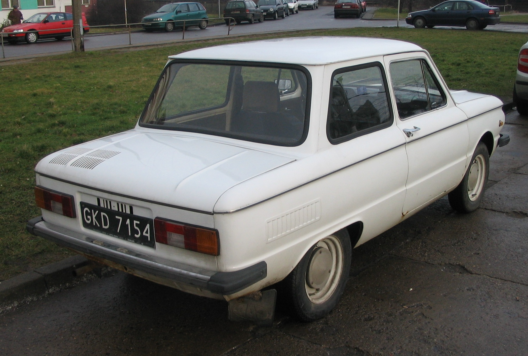 ZAZ 968M near Gdynia Grabówek train stop, Gdynia, POLAND - stern view